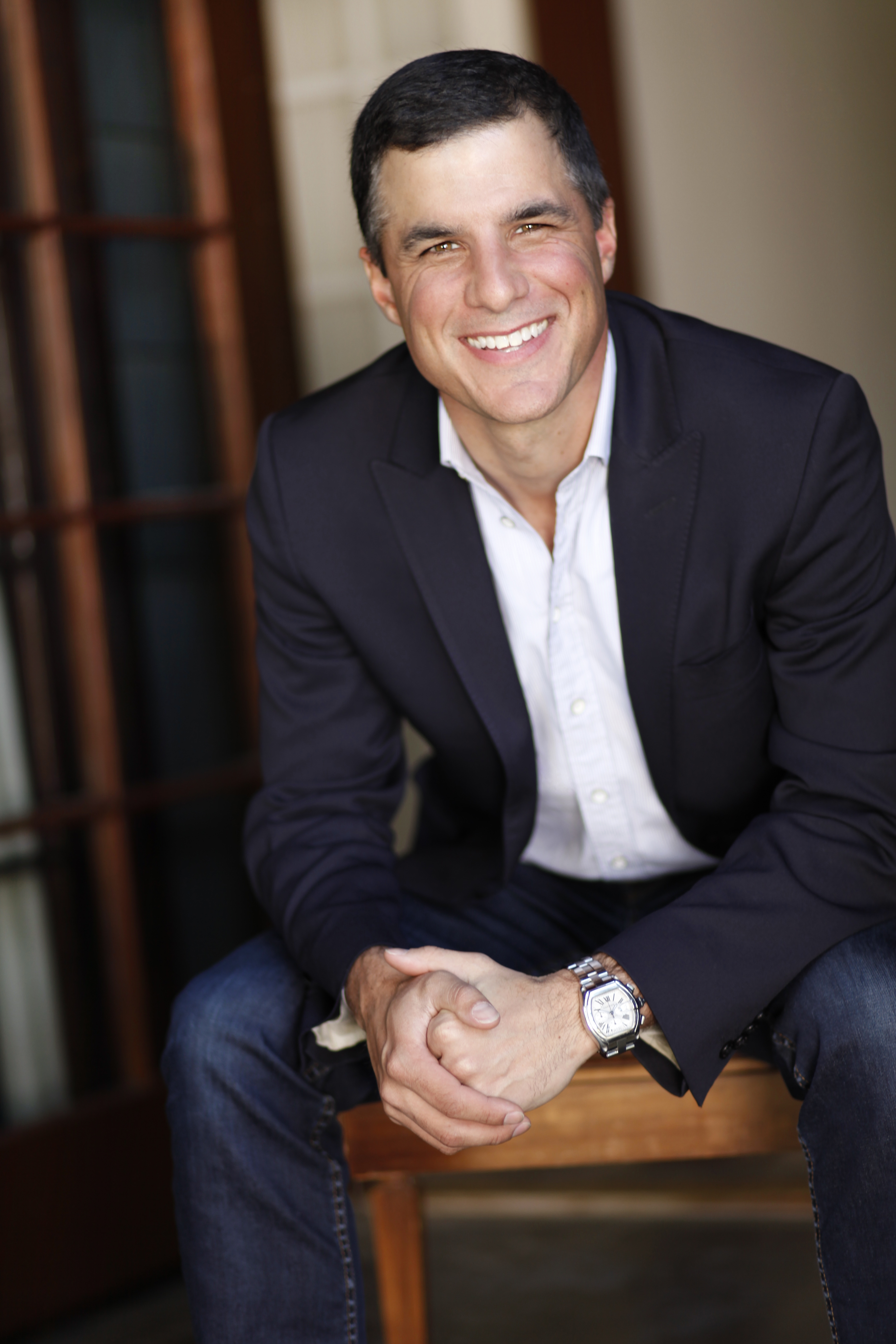 Davenport in February 2015.